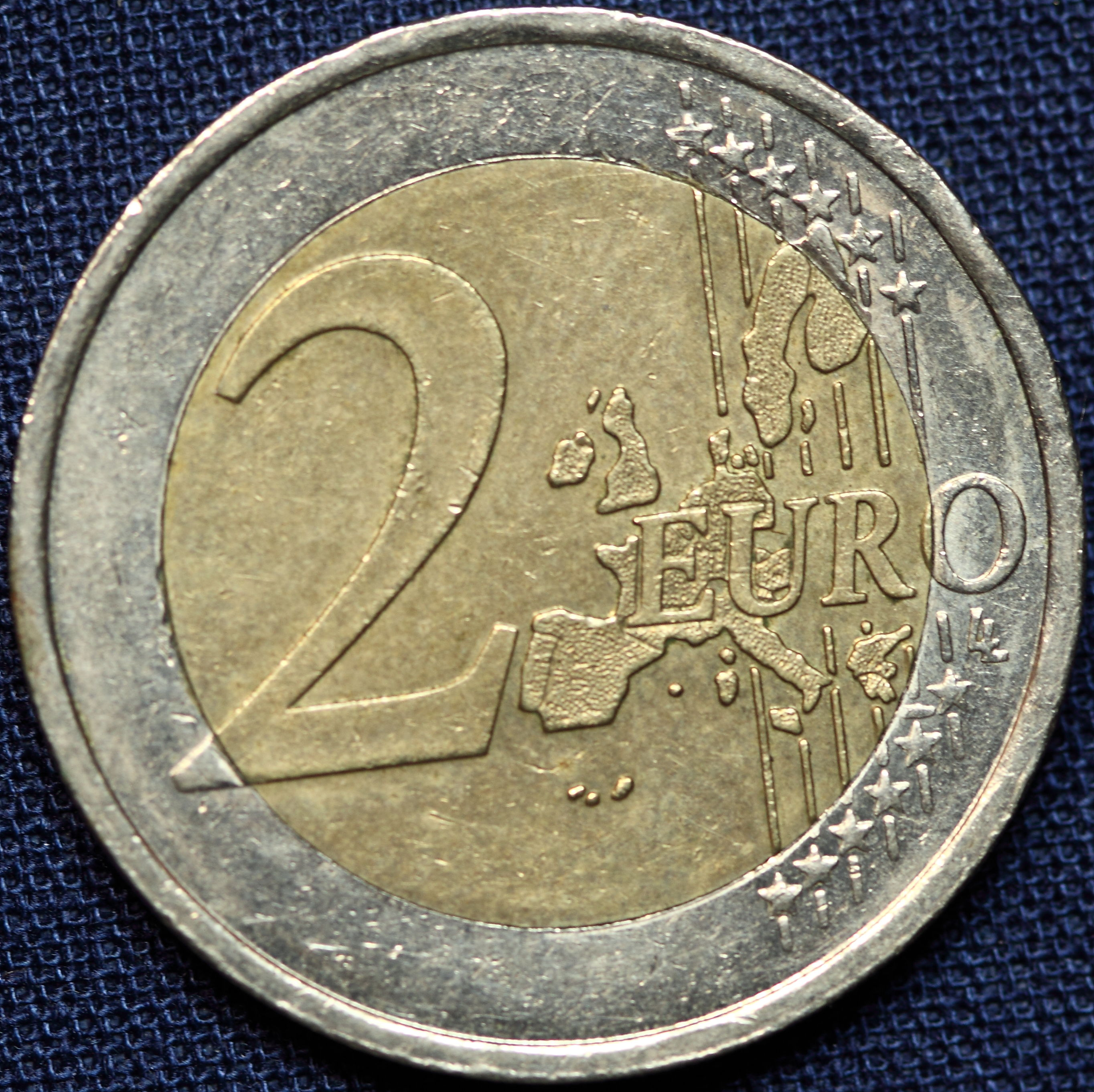 2 Euro common face (Old Design)